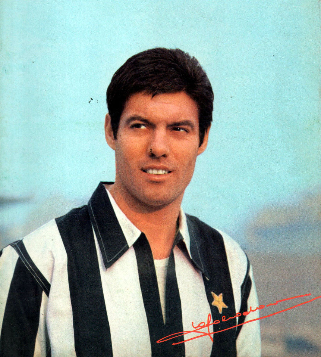 Italian footballer Sandro Salvadore with Juventus F.C. in the 1st half of the 1969–70 season.